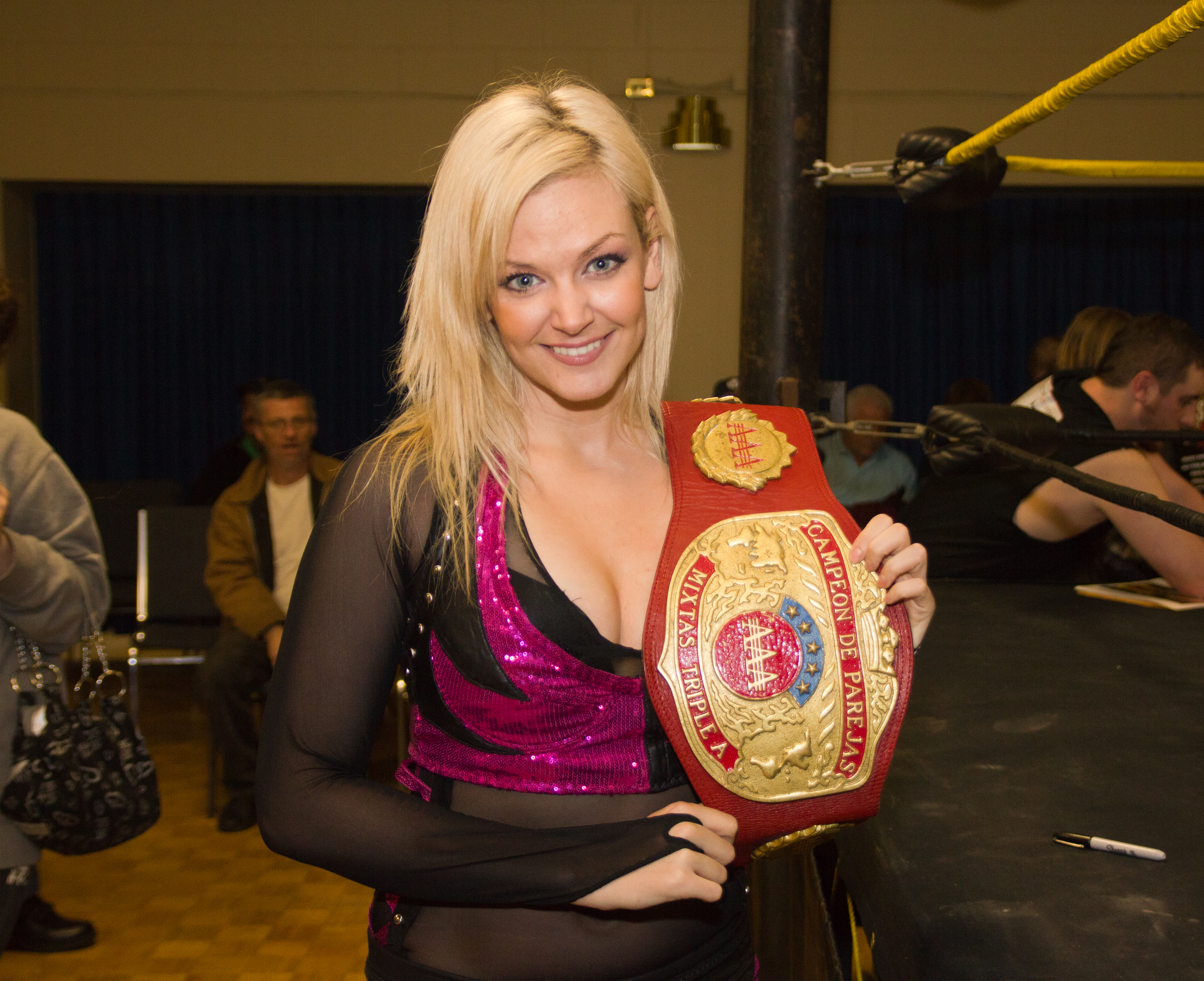 Wrestler Jennifer Blake posing with the AAA World Mixed Tag Team Championship. Taken at a Classic Championship Wrestling show in Tilsonberg, ON